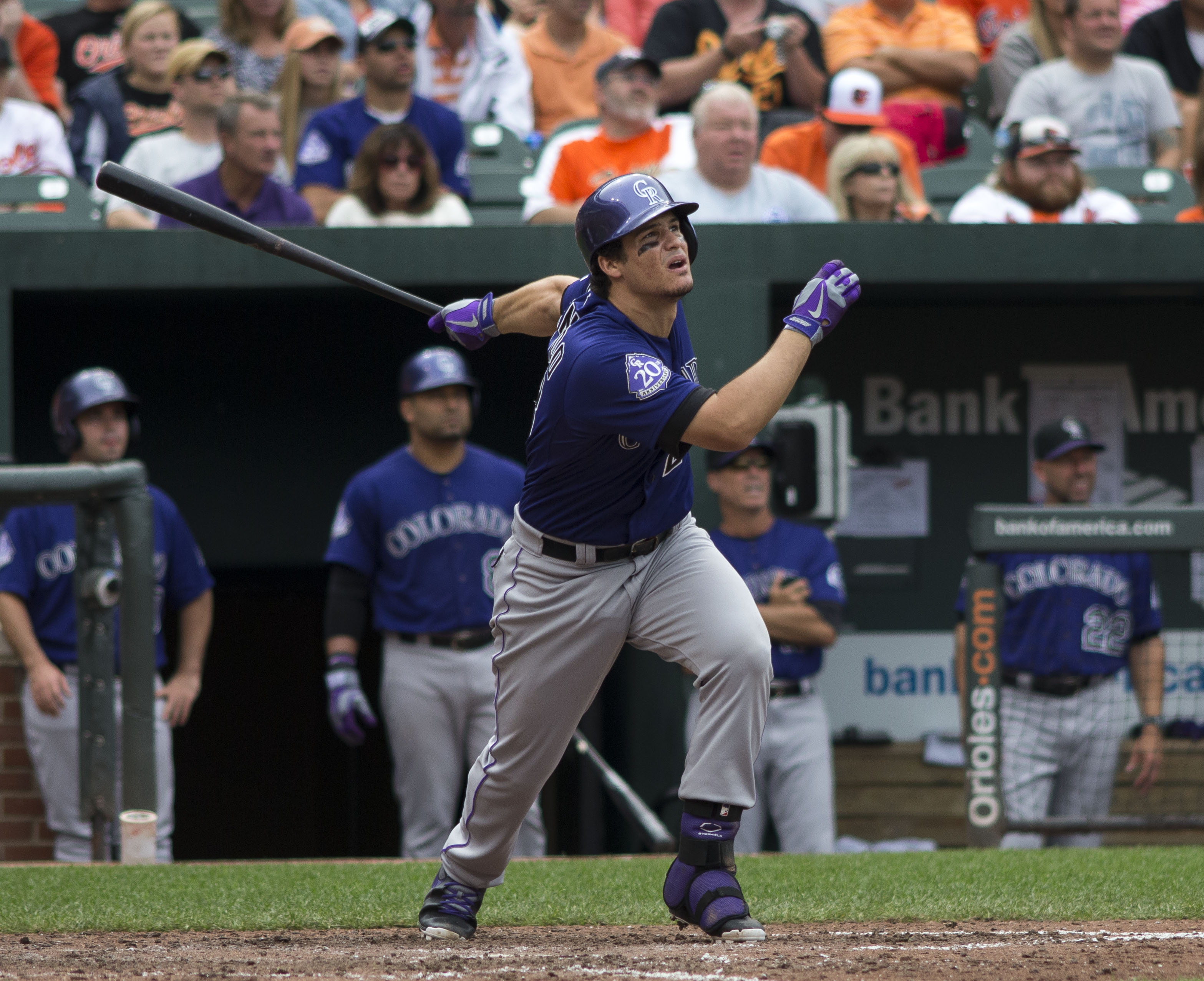 Nolan Arenado of the Colorado Rockies batting against the Orioles in Baltimore during a Major League Baseball game in Baltimore, 18 August 2013.